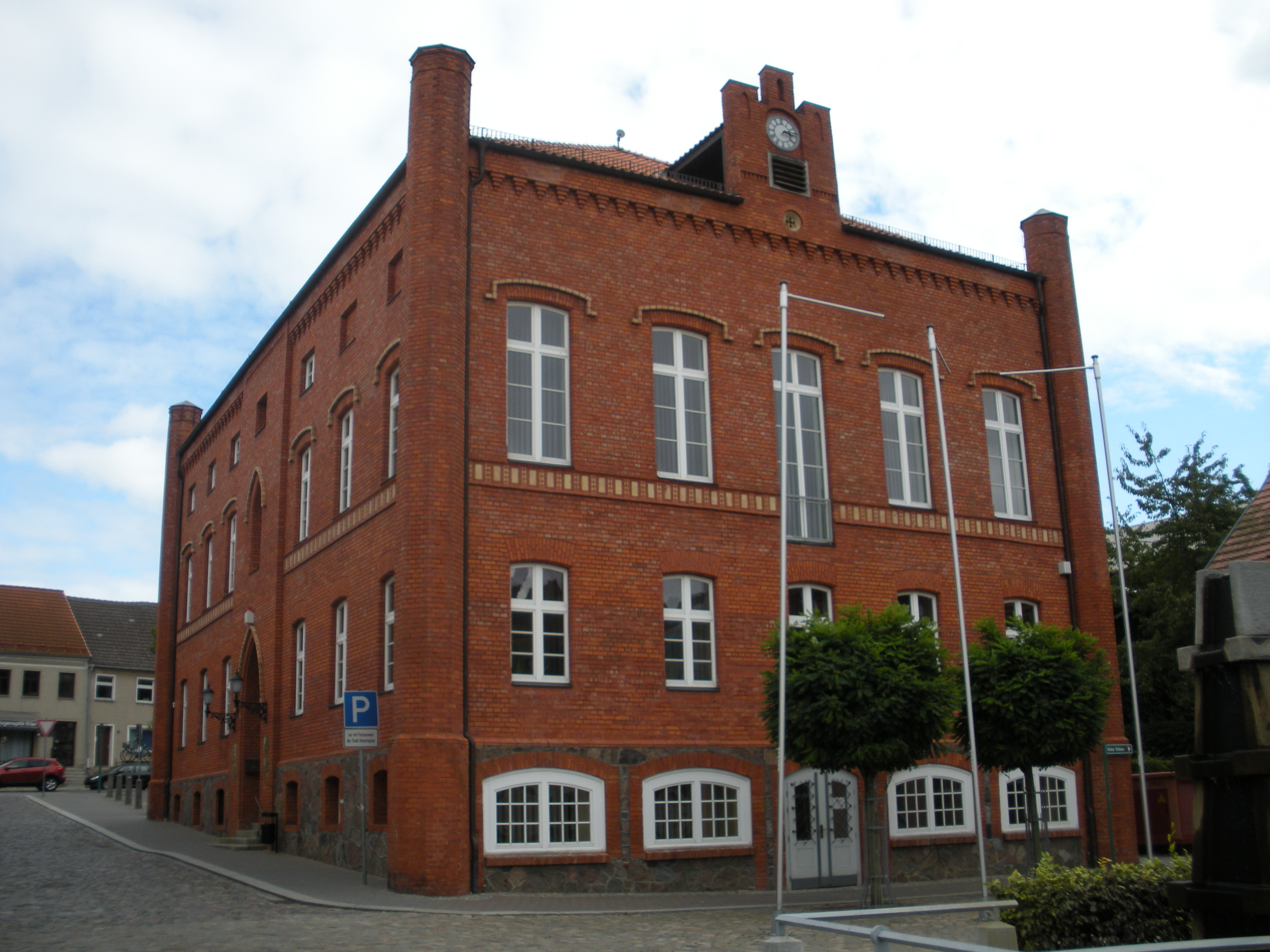 Town Hall Altentreptow, Landkreis Demmin